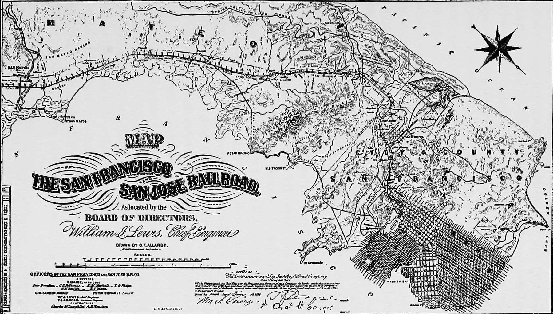 Original caption: "Map showing northern end of the San Francisco and San Jose Railroad in 1862."